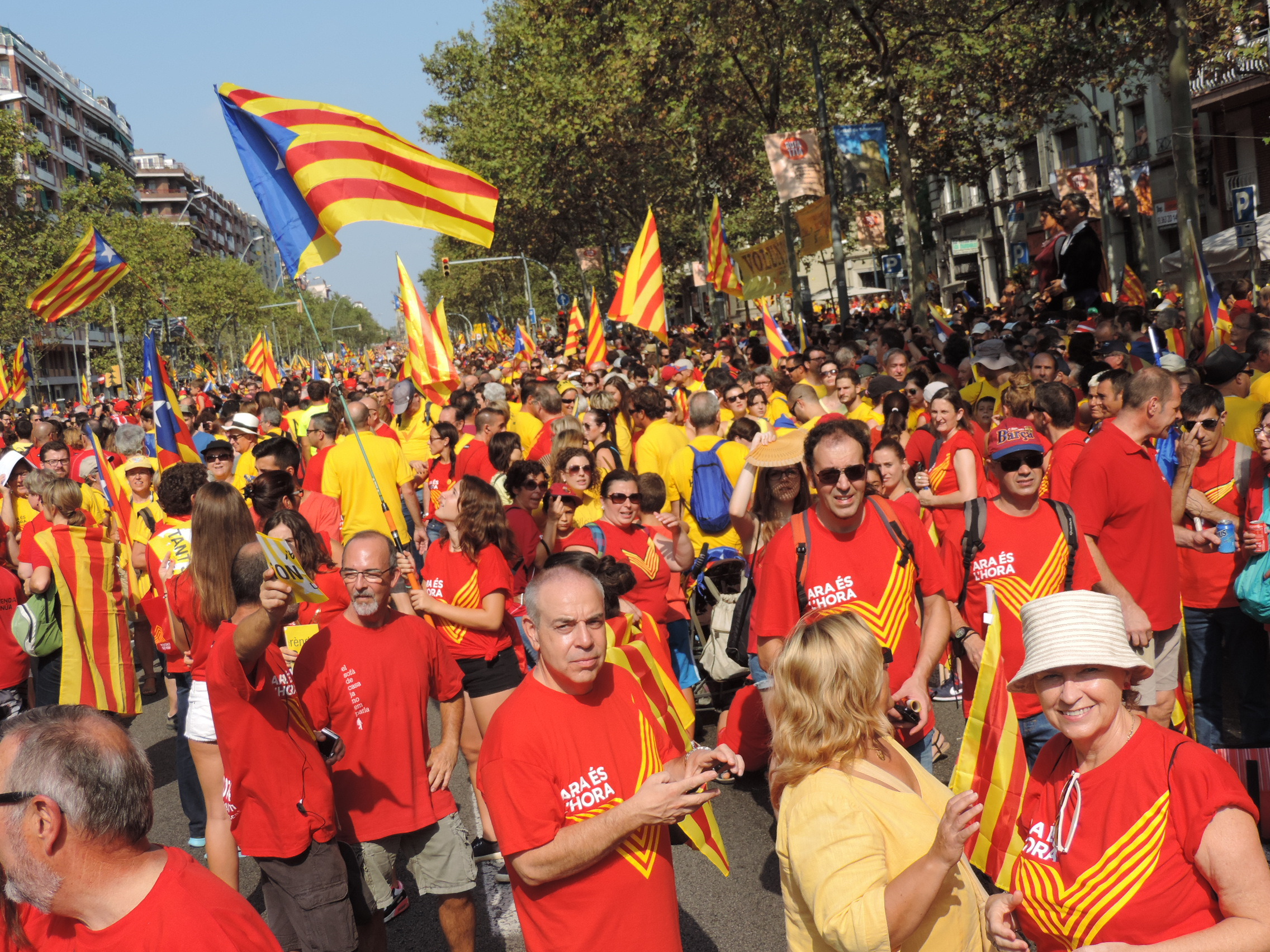 «V» National Day of Catalonia 2014